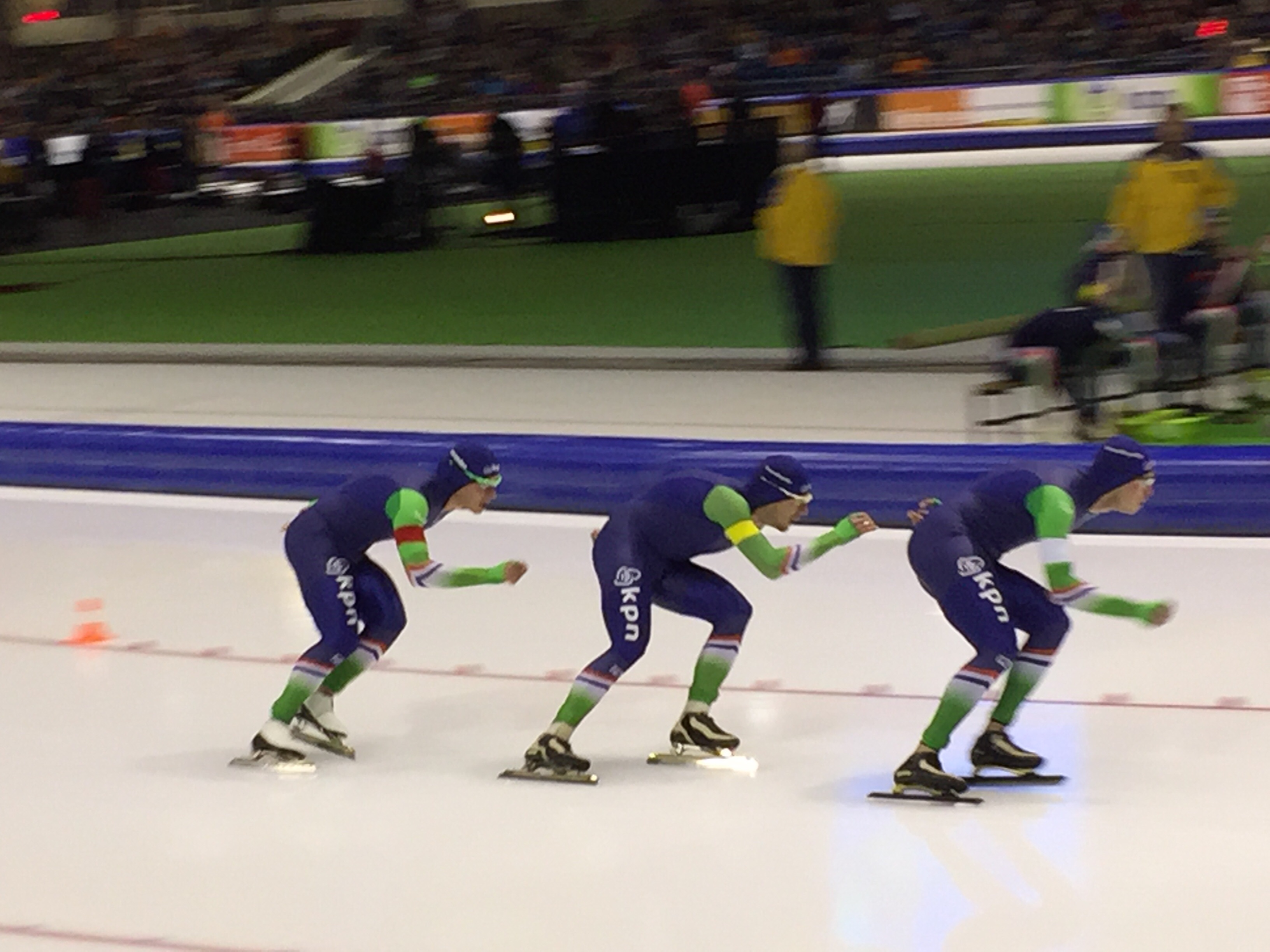 2015 World Single Distance Speed Skating Championships, mens team pursuit (